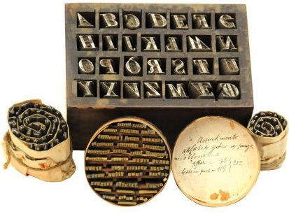 Punches carved by Brothers Amoretti around 1795